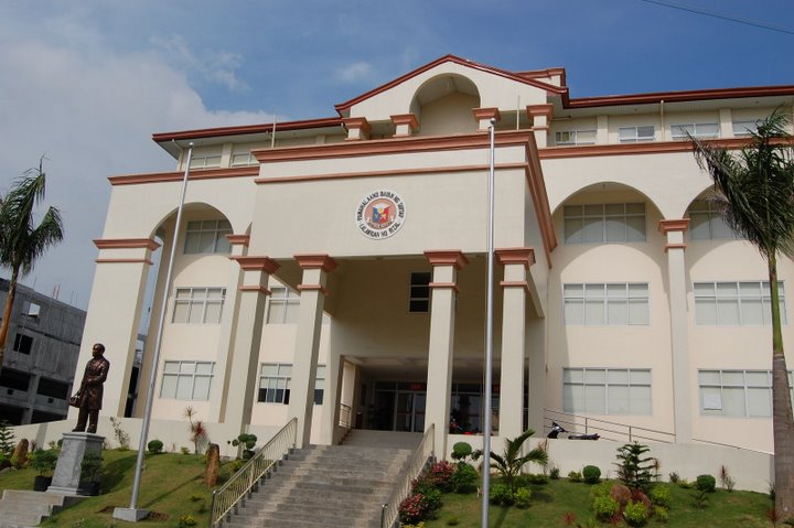 The New Taytay Municipal hall was constructed around 2009.